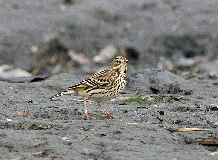 Anthus cervinus in winter plumage, Taitung, China.